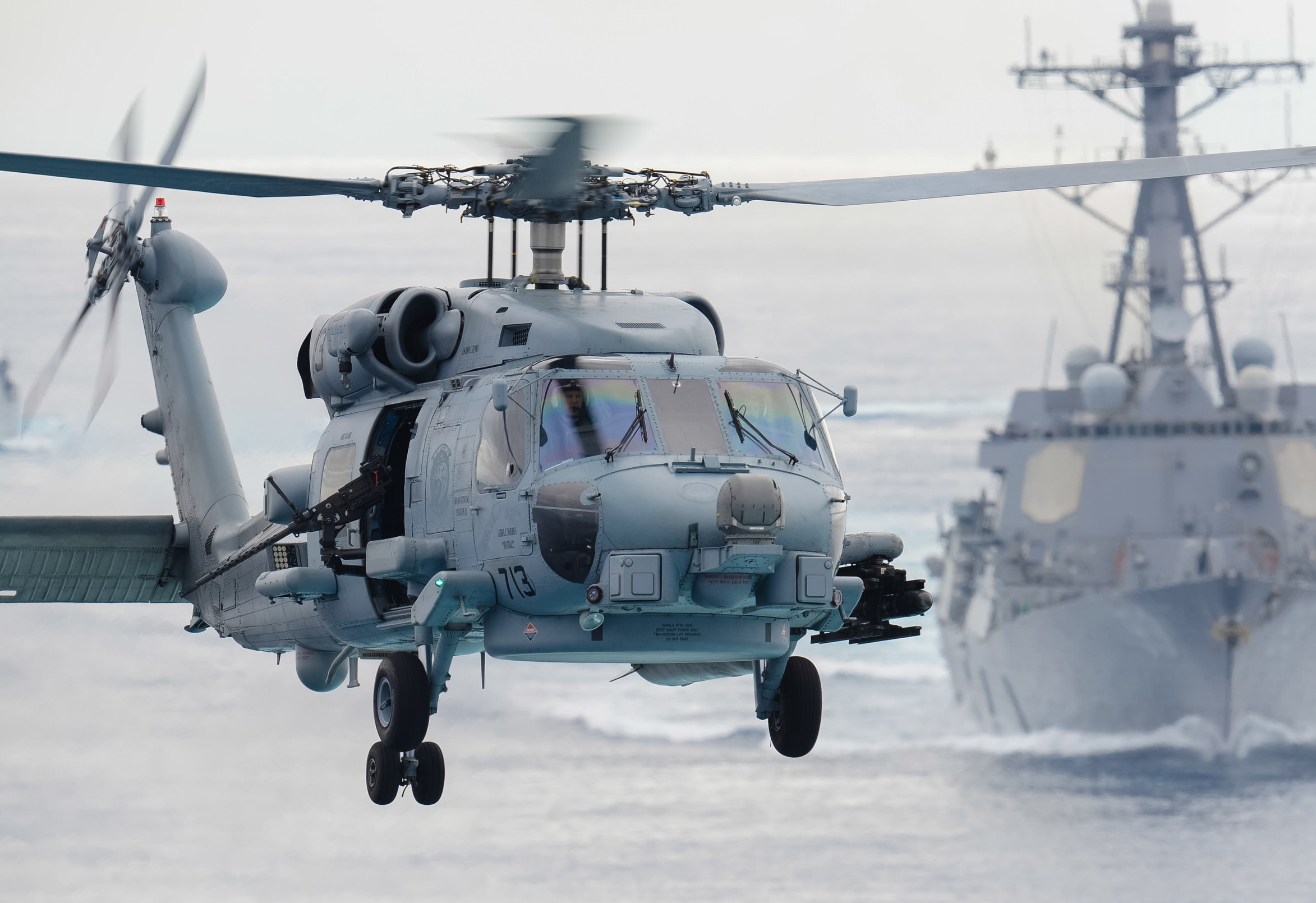 150811-N-XX566-010 PACIFIC OCEAN (Aug. 11, 2015) An MH-60R Sea Hawk helicopter assigned to the Raptors of Helicopter Maritime Strike Squadron (HSM) 71 prepares to land aboard the aircraft carrier USS John C. Stennis (CVN 74) as the guided-missile destroyer USS Chung Hoon (DDG 93) follows behind during a show of force transit. The John C. Stennis Strike Group is undergoing a composite training unit exercise and joint task force exercise, the final step in certifying to deploy. (U.S. Navy photo by Mass Communication Specialist 3rd Class Andre T. Richard/Released)